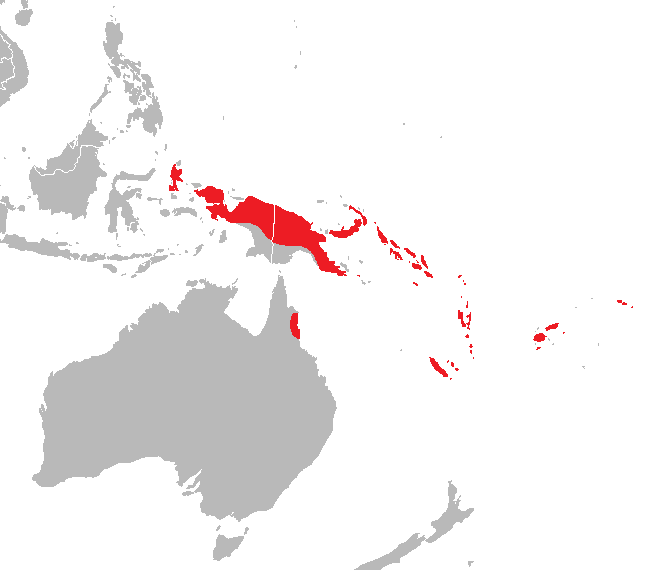 Range map of the genus Spiraeanthemum (Cunoniaceae), including Acsmithia